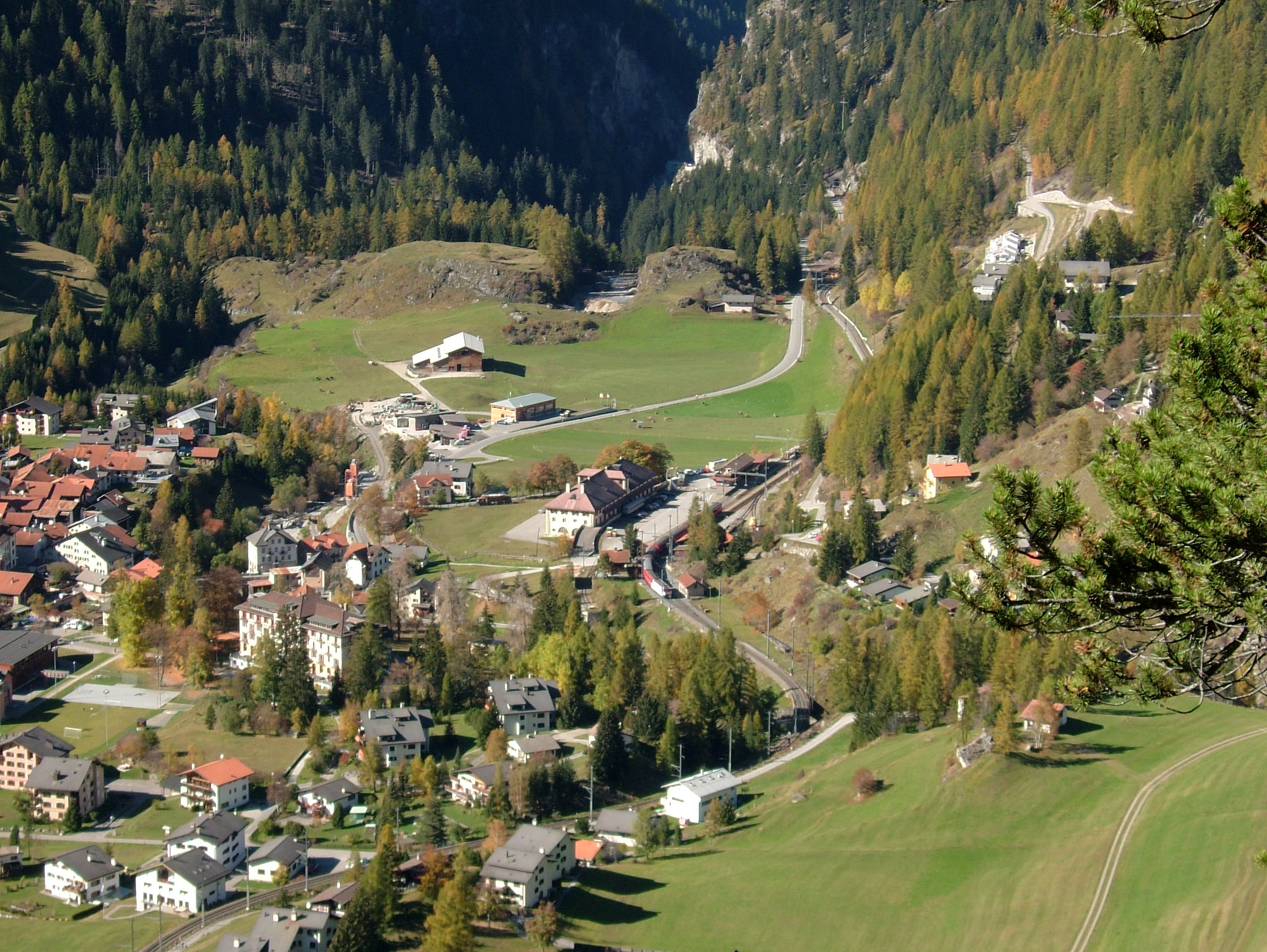 Albula Railway, southbound train after leaving Bergün/Bravuogn train station (view from footpath to Piz Darlux).